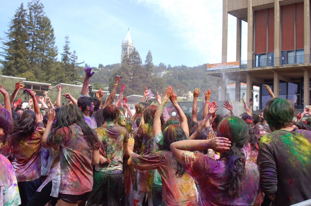 Holi Celebration at UC Berkeley, California, USA, April 3 2010.